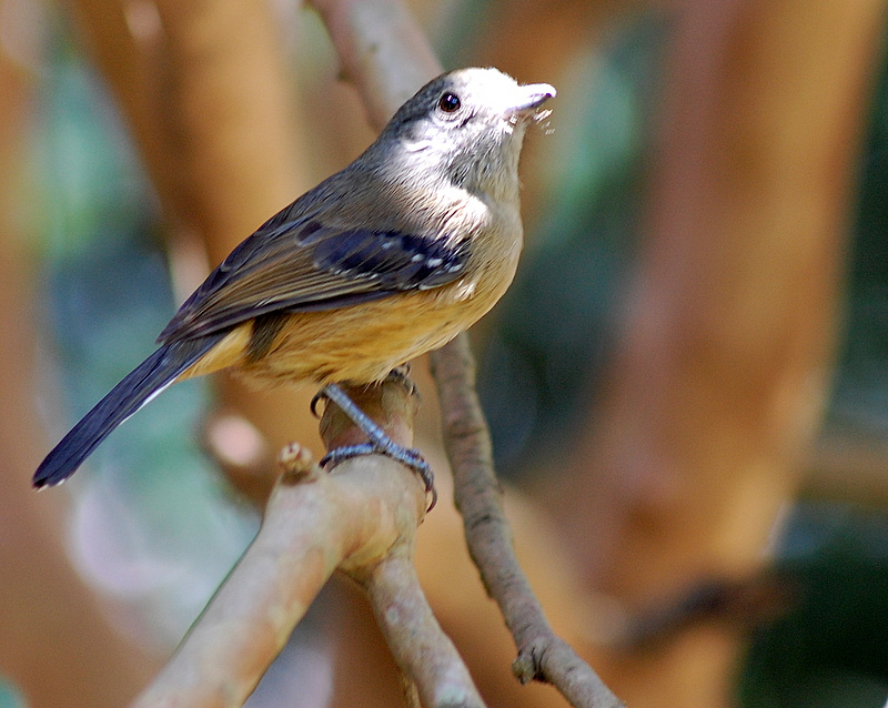 Thamnophilus caerulescens at Horto Municipal, Socorro-SP.